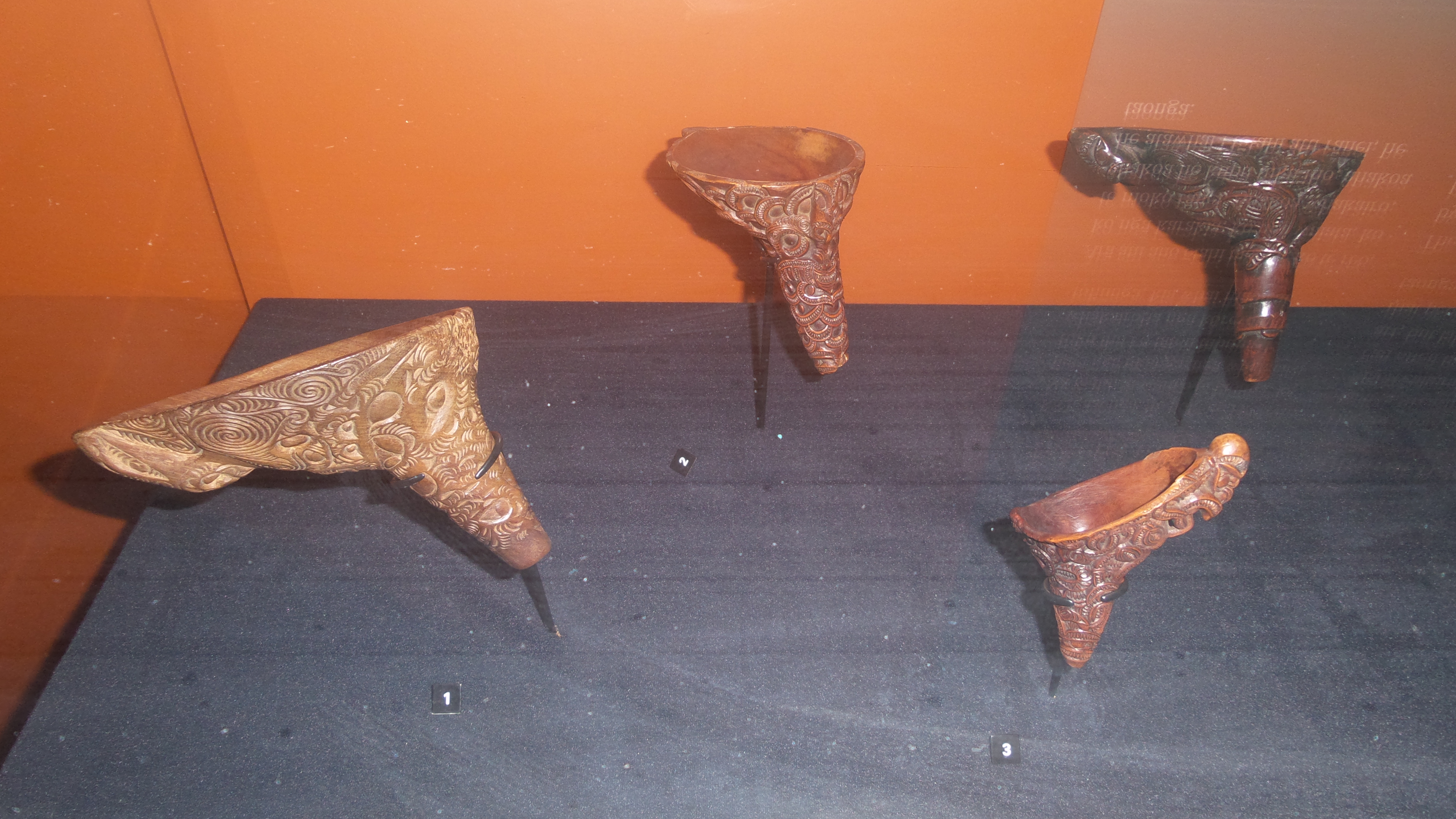 A collection of kōrere (feeding funnels) in Te Papa, Museum of New Zealand in Wellington.